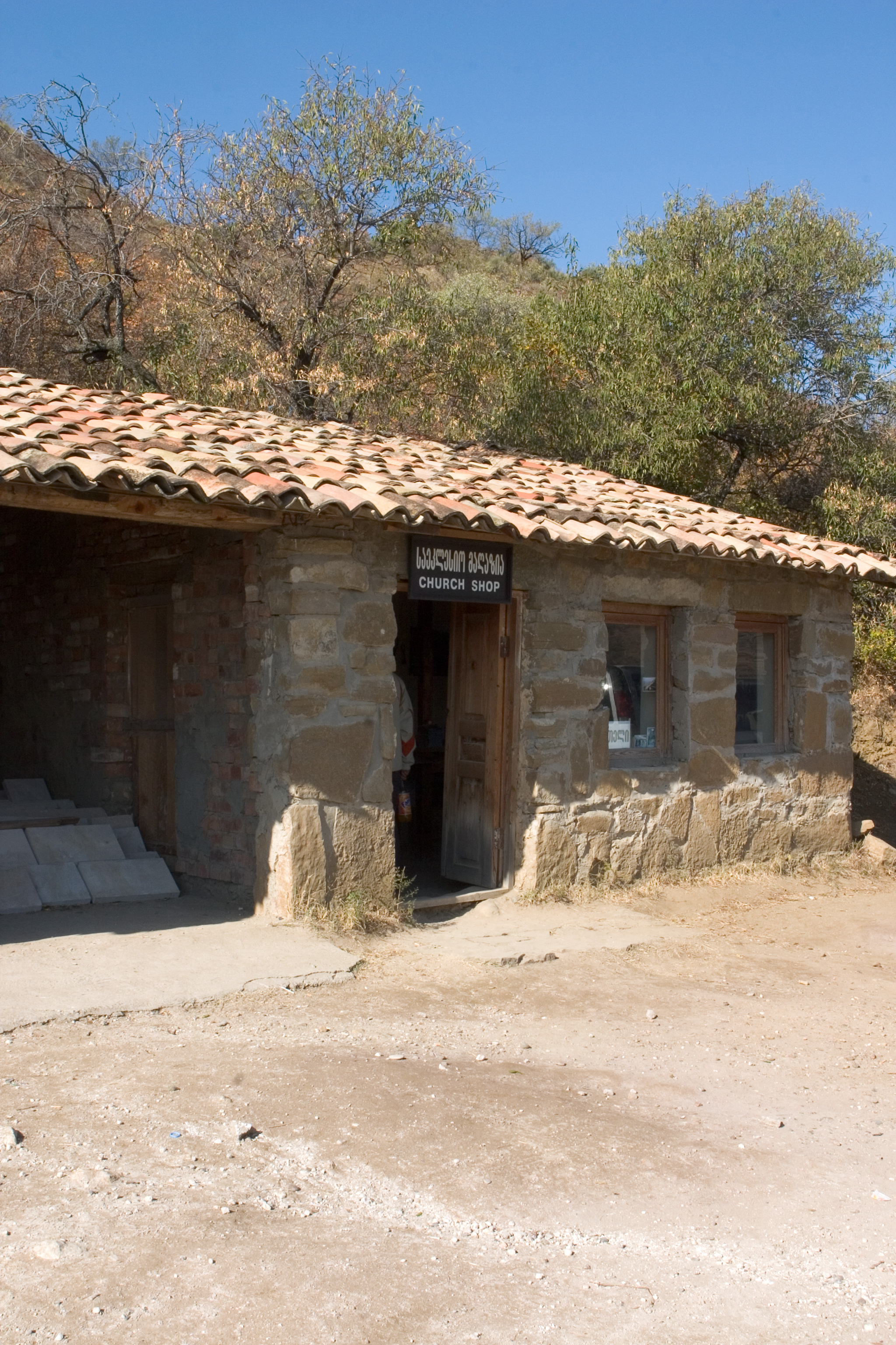 David Gareja